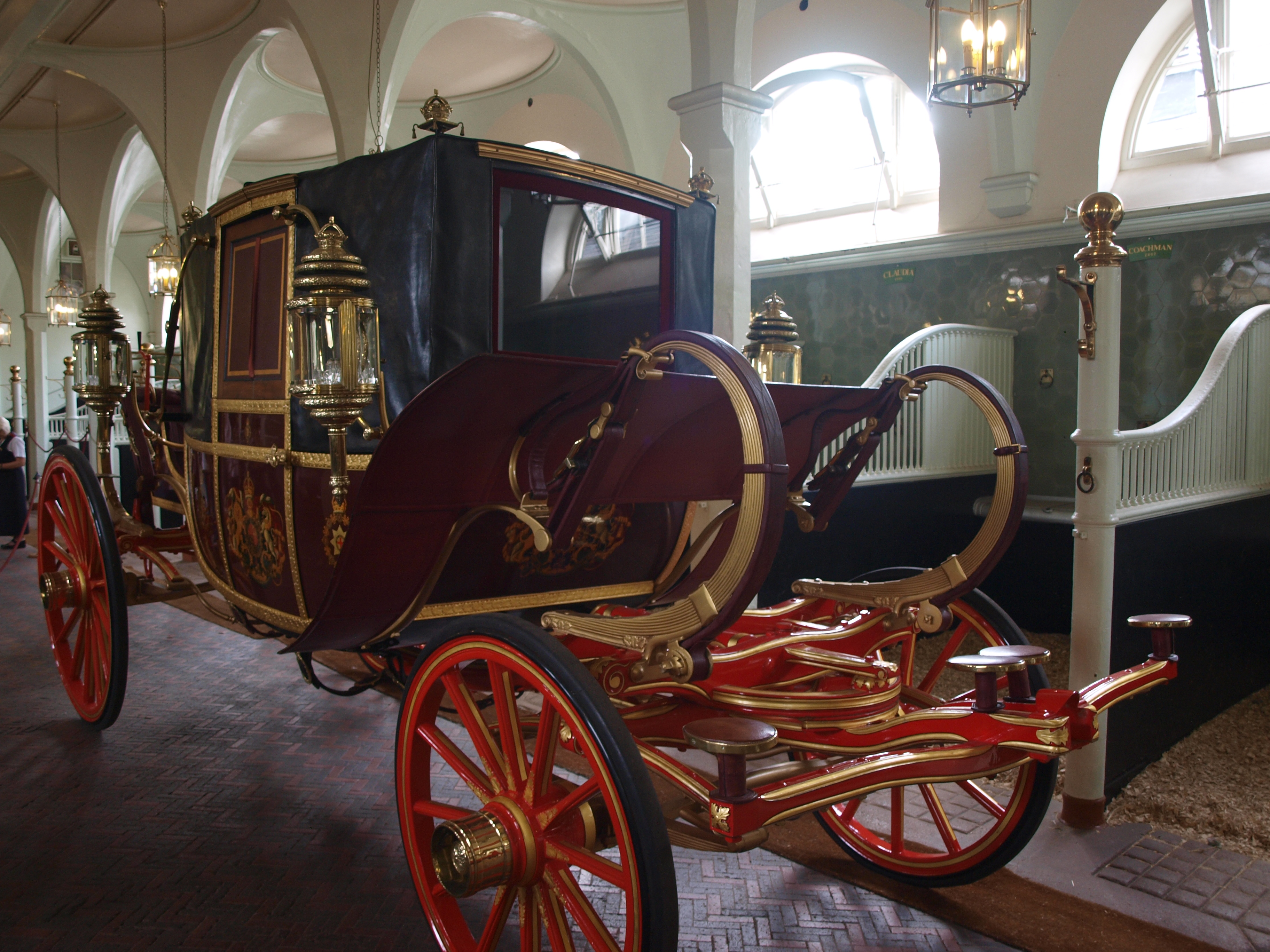 File:1902 State landau London, England